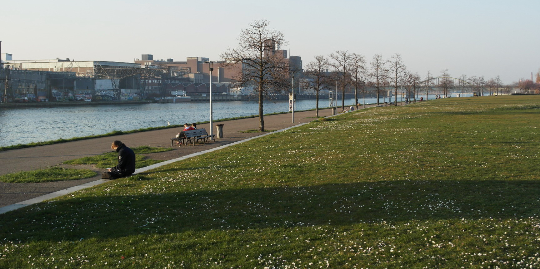 Maastricht, the Netherlands. View towards the northwest of Griendpark along the east bank of the River Meuse in the quarter of Sint Maartenspoort.